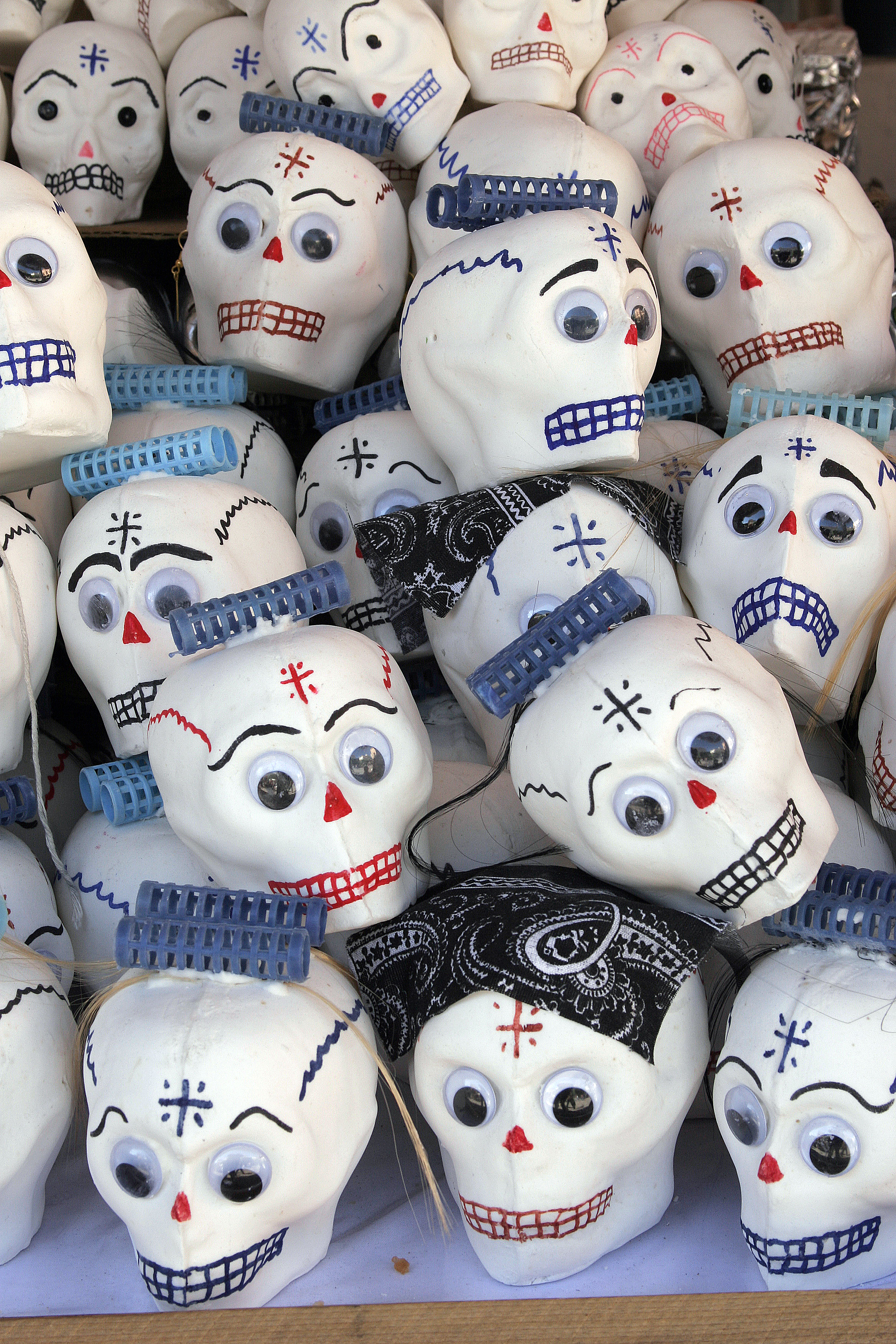 Alfeñiques are Day of the Dead traditional sugar-made figures in Mexico.